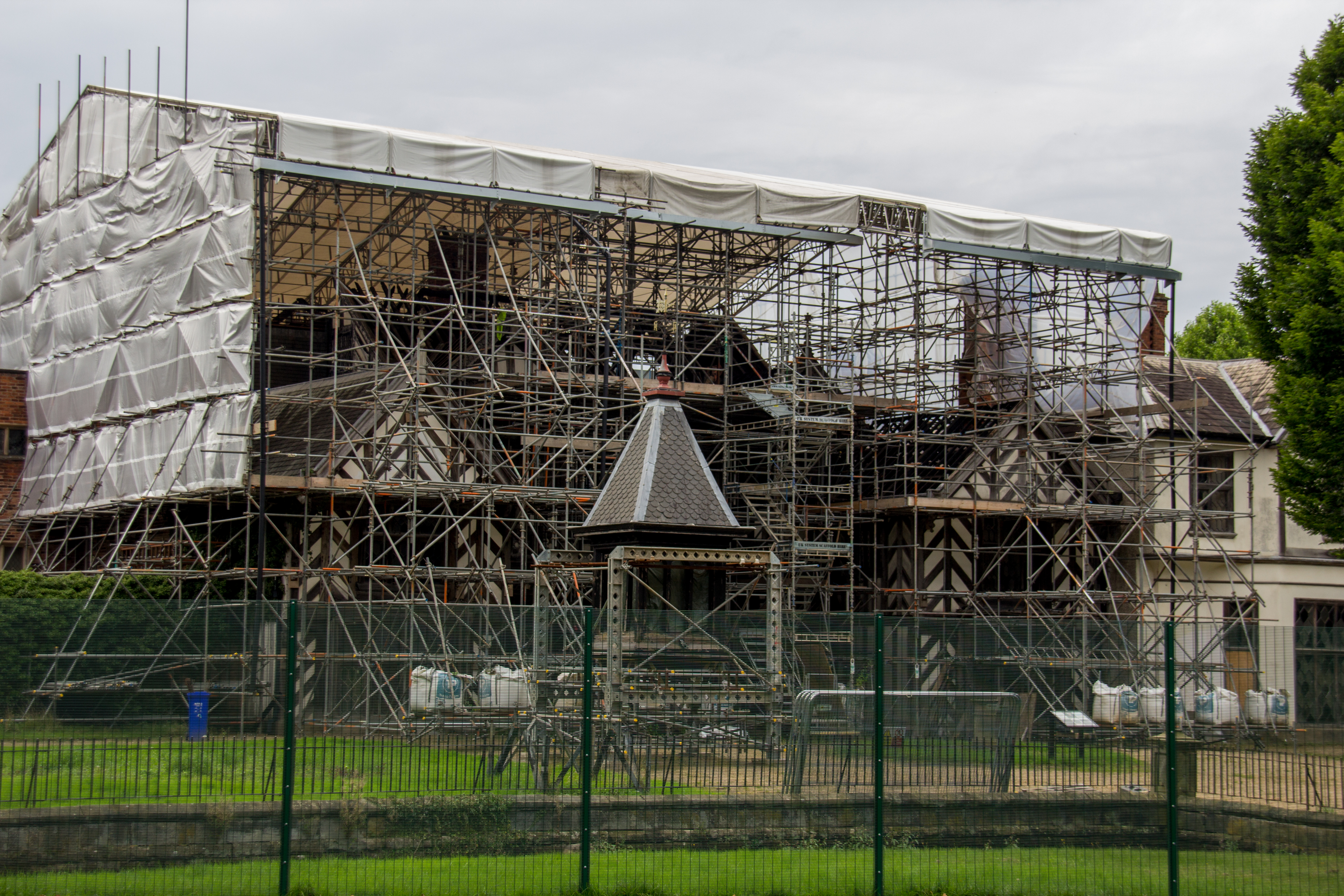 Wythenshawe Hall, United Kingdom